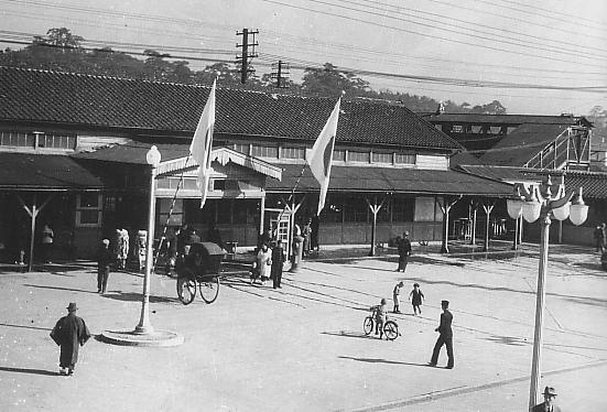 Akashi Station circa 1935-1944